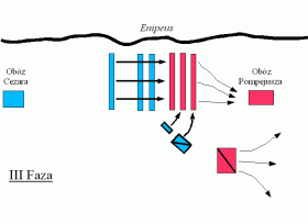 The third phase of the battle of Pharsalus